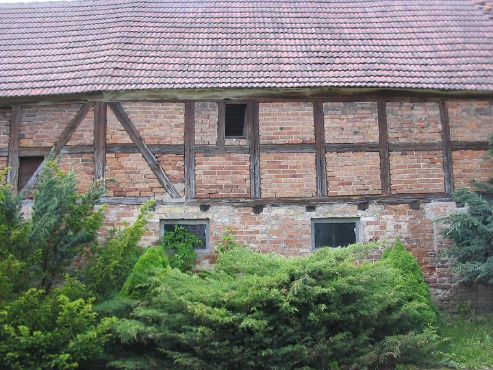 Barn in Gömnigk. The village Gömnigk is an incorporated part of the town Brück in the district Potsdam Mittelmark, state Brandenburg, Germany. Gömnigk appertains to the natural preserve Naturpark Hoher Fläming.